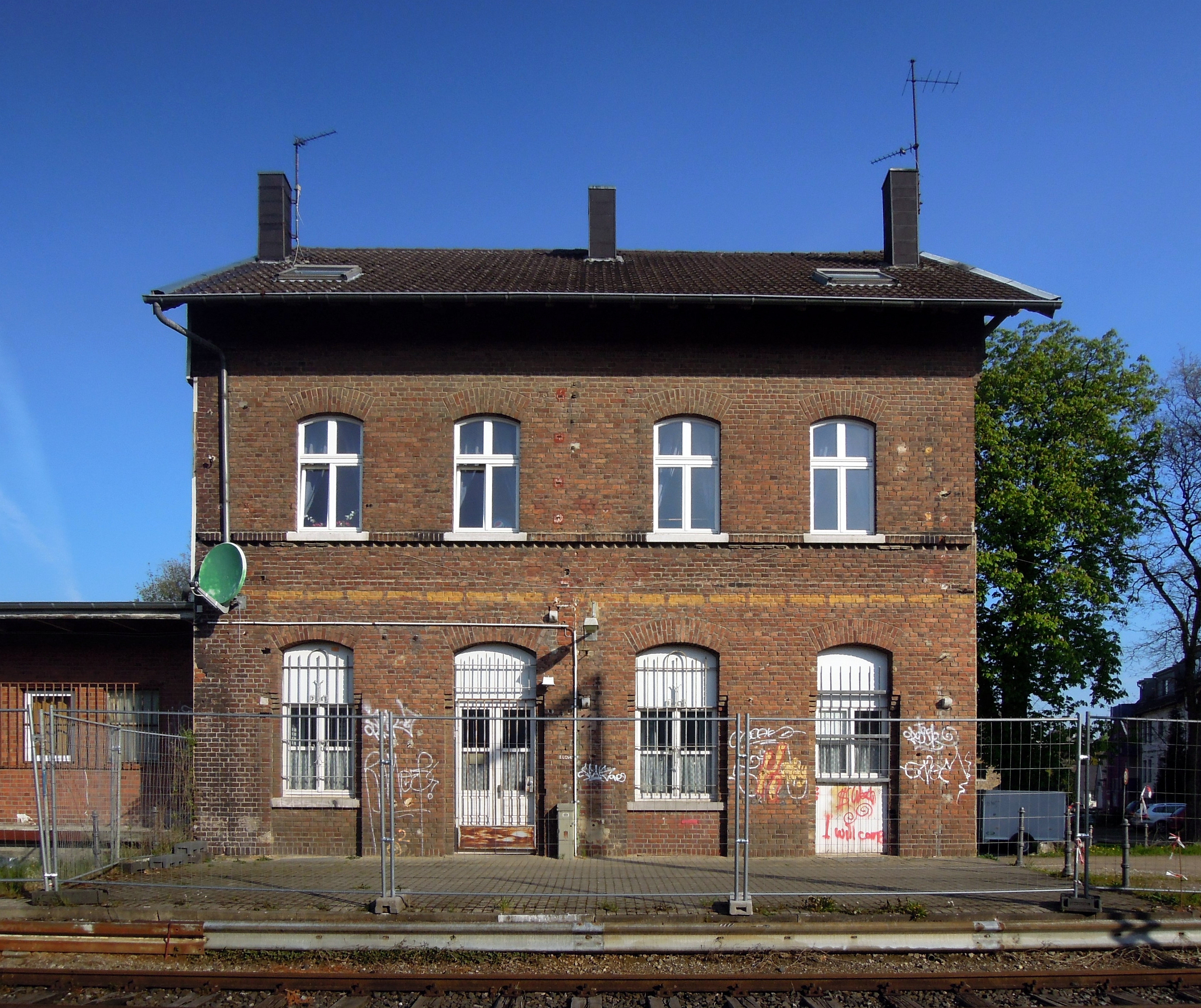 Heritage railway station Walheim in May 2015.